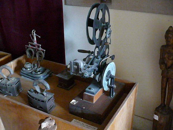 Projector Lumiere from Gherla Museum